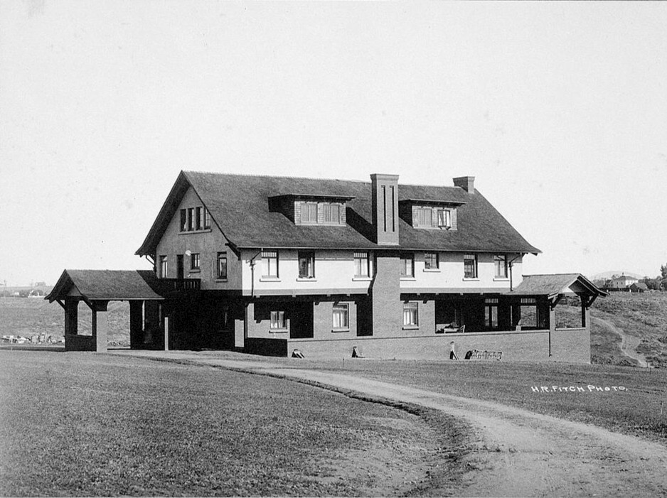 National Register of Historic Places in California George W. Marston House, 3525 Seventh Avenue, San Diego, San Diego County, CA. south (front) elevation. Building/structure dates: 1905 initial construction